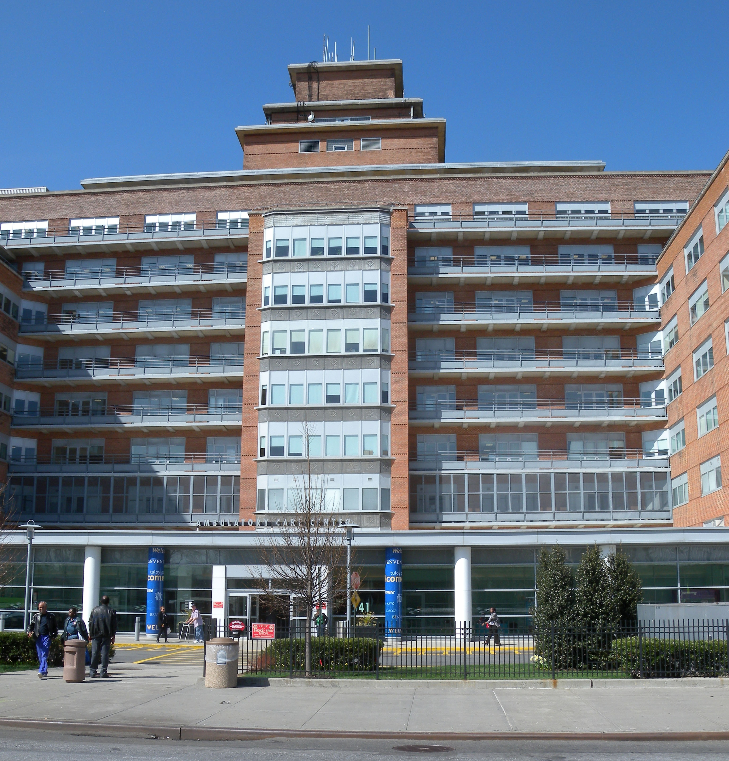 Looking north across Clarkson Avenue at Kings County Hospital Center Ambulatory building on a sunny afternoon.